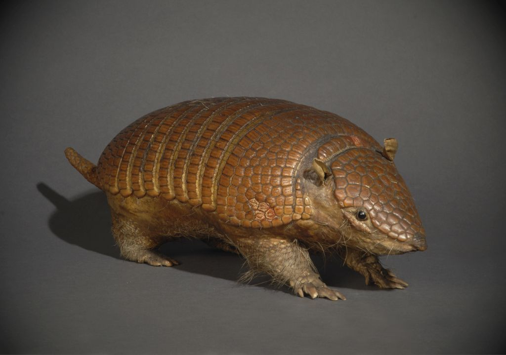 Taxidermied specimen in the collection of Birmingham Museums Trust.